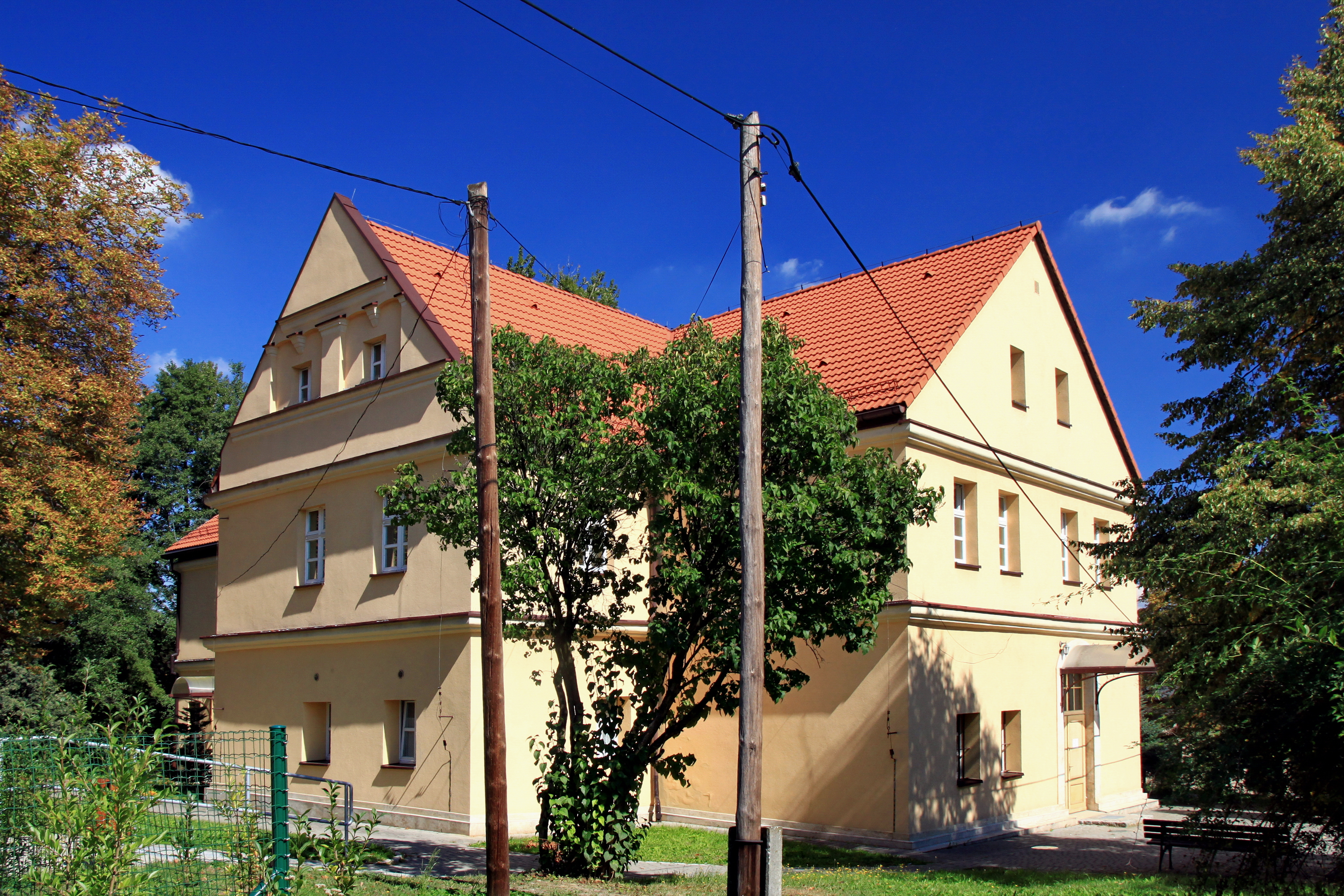 Jastrzębie-Zdrój, fortified manor house, build in 1636, 1958